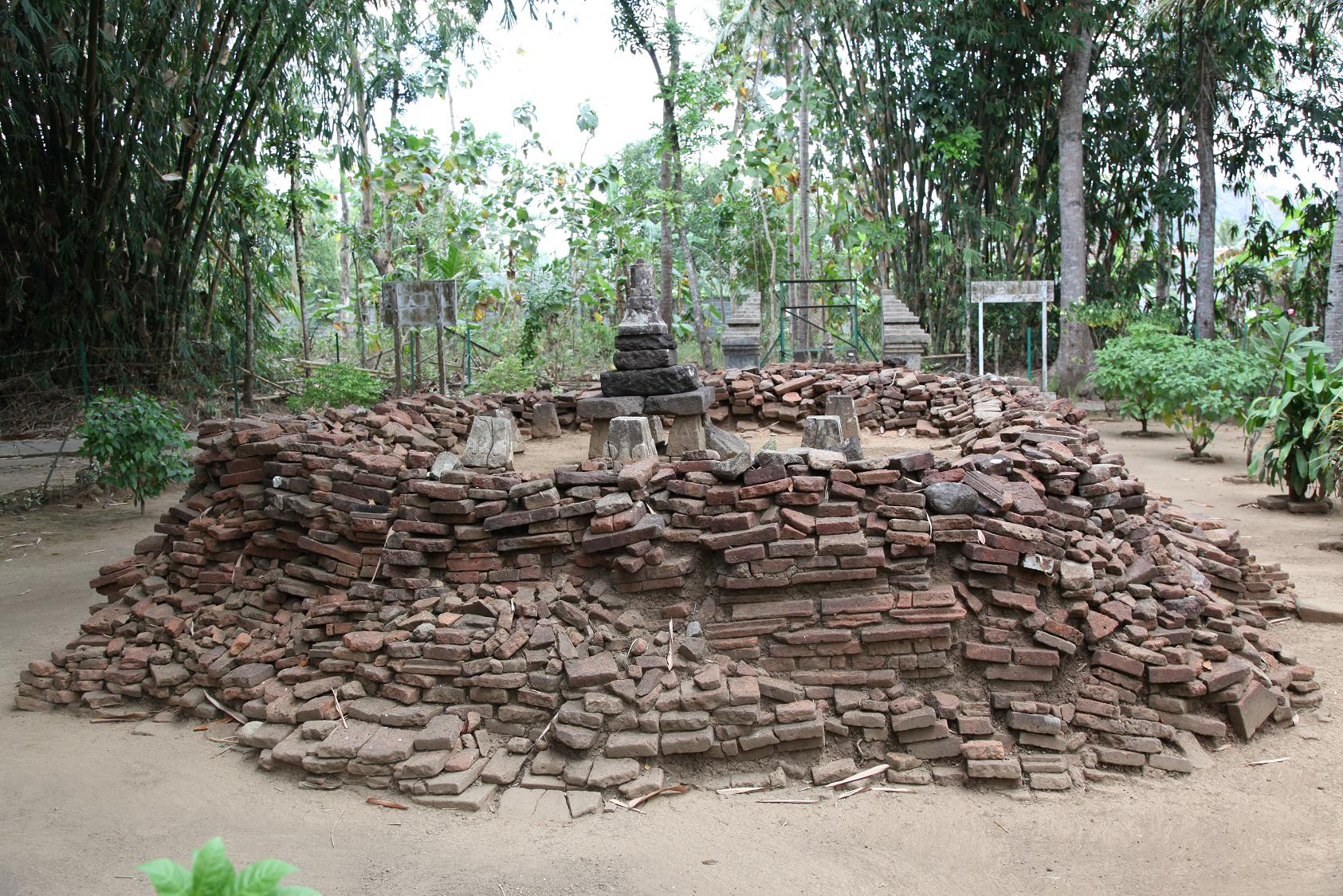 Candi Bacem (Bacem Temple)